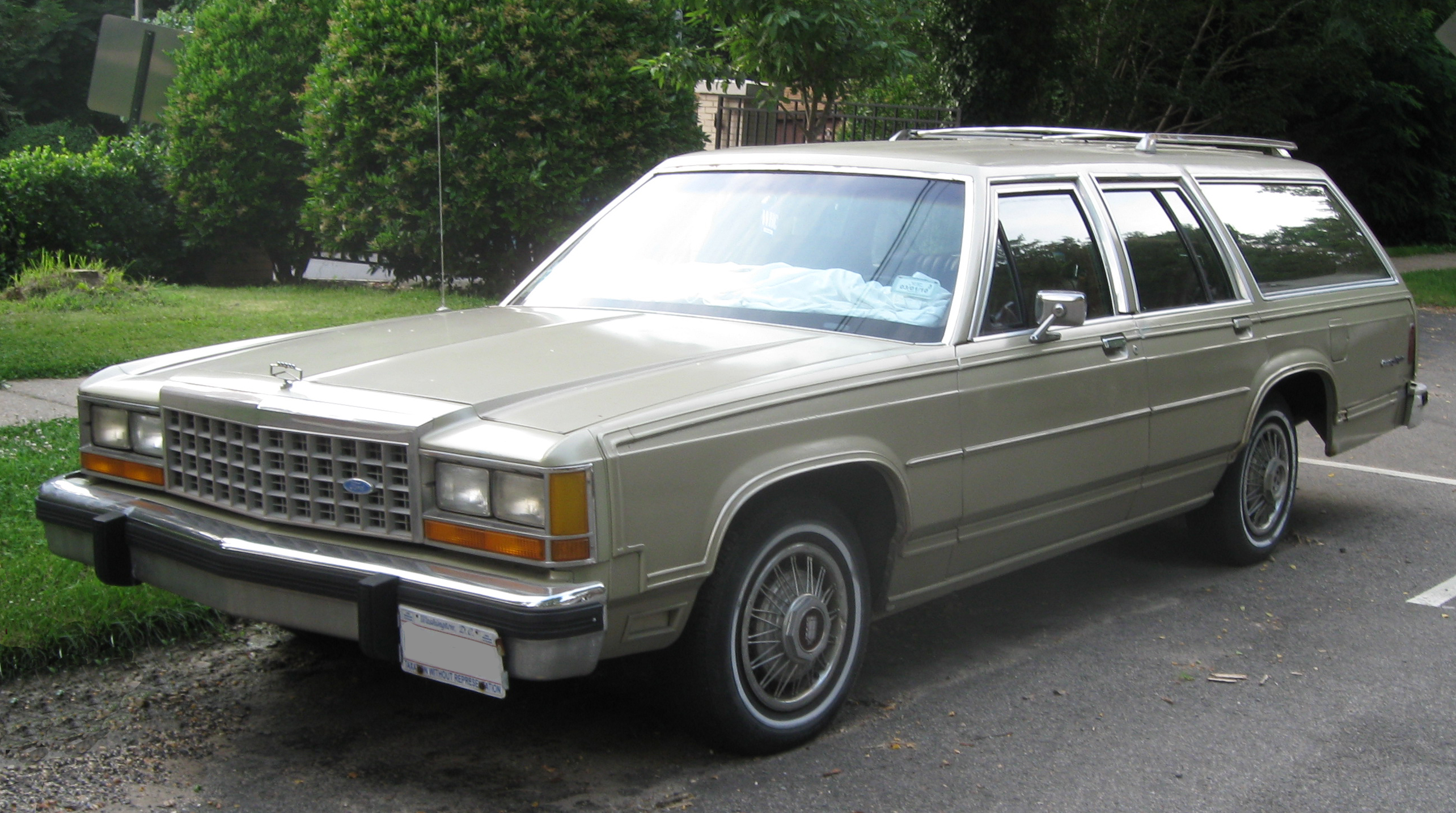 1983-1987 Ford Country Squire photographed in Washington, D.C., USA.